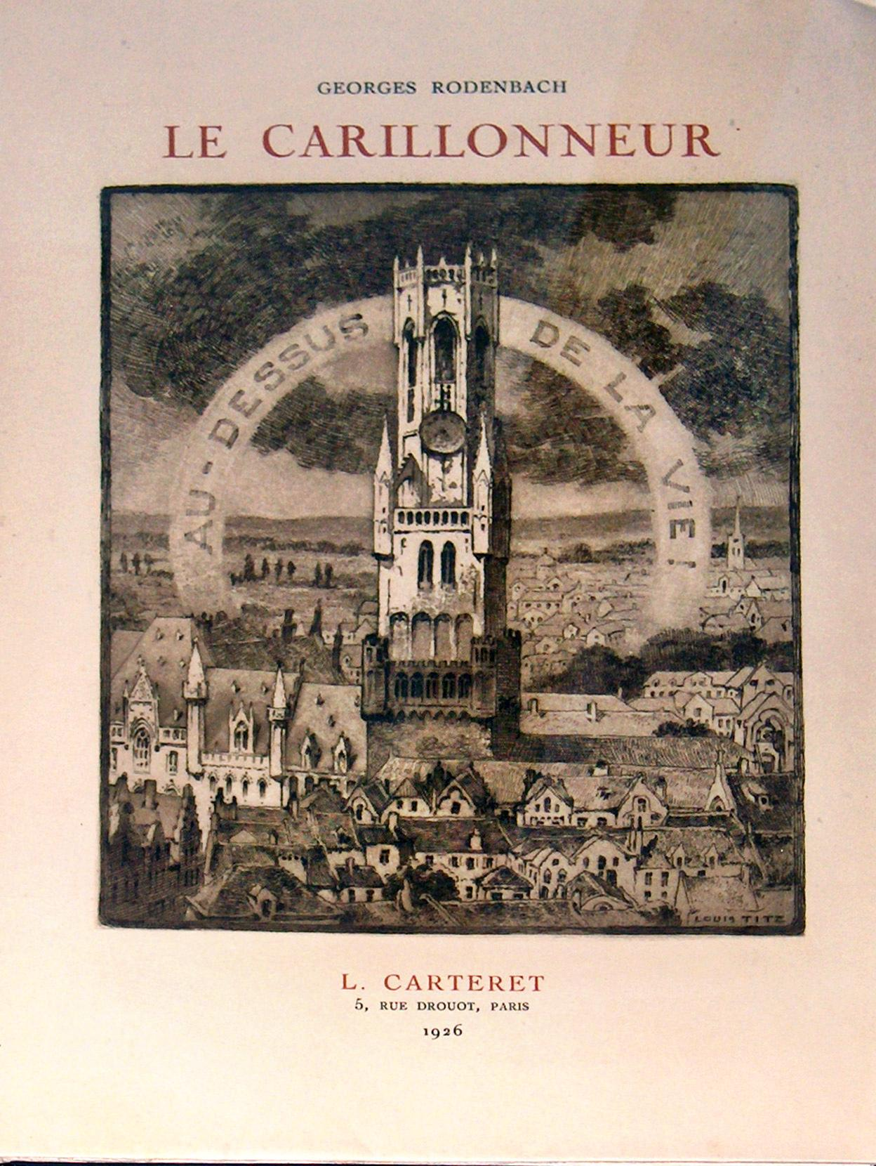 "Le Carillonneur" (1897), book by Georges Rodenbach (1855-1898)